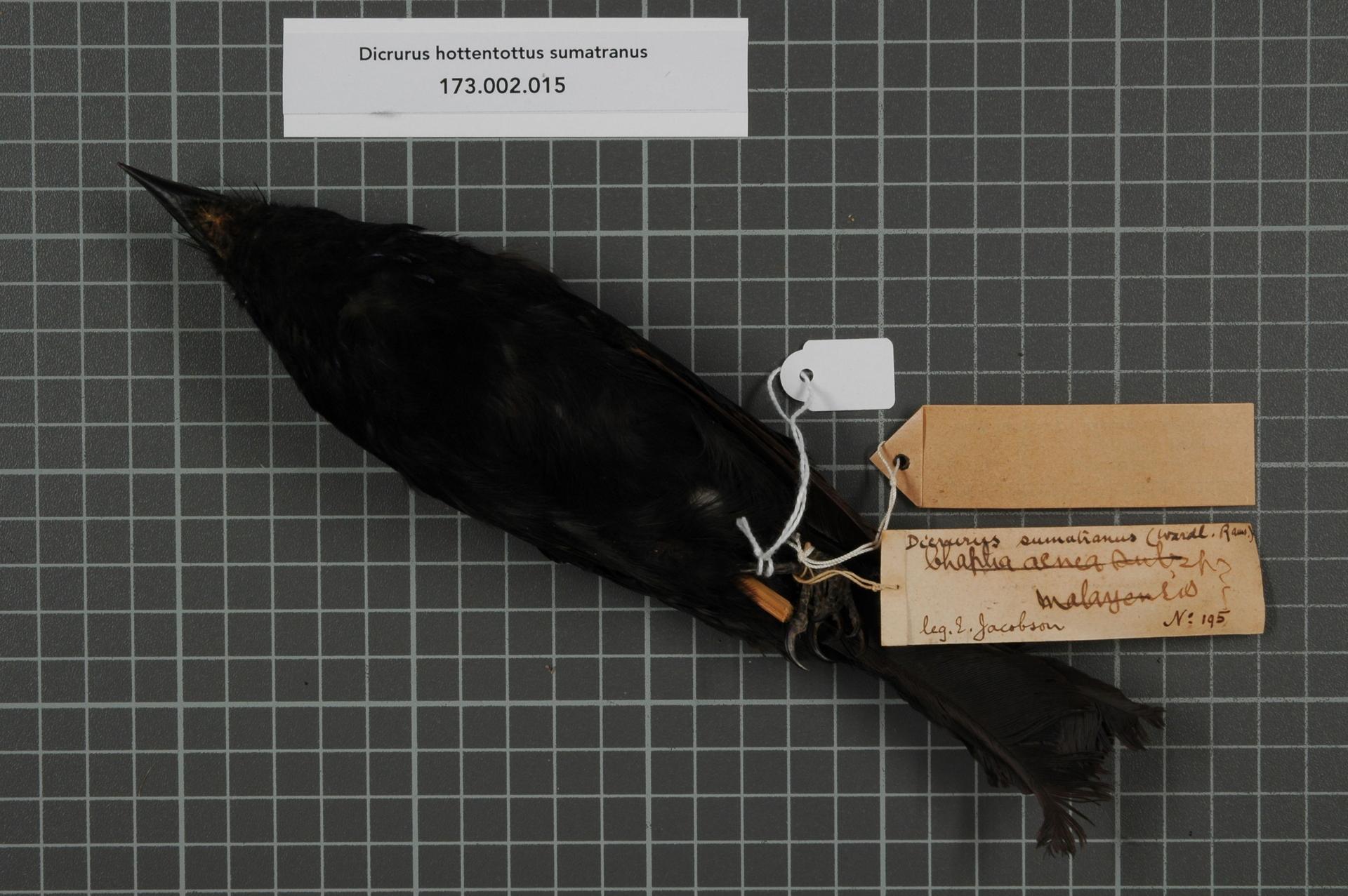 Dicrurus hottentottus sumatranus R.G.W. Ramsay, 1880